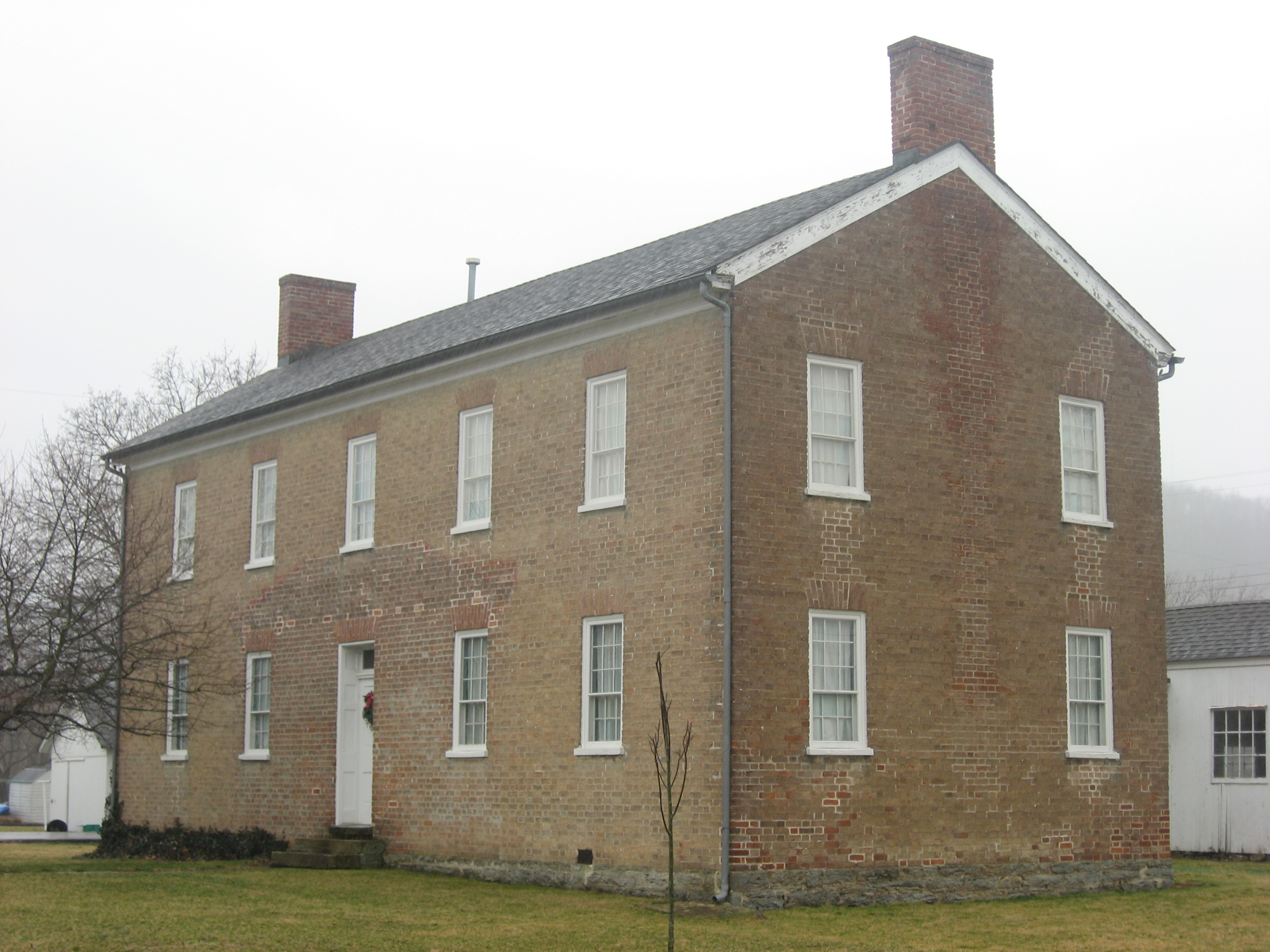 Front and western end of the Franklin County Seminary, located at 412 Fifth Street in Brookville, Indiana, United States. Built in 1831, it is listed on the National Register of Historic Places, and it is part of a Register-listed historic district, the Brookville Historic District.